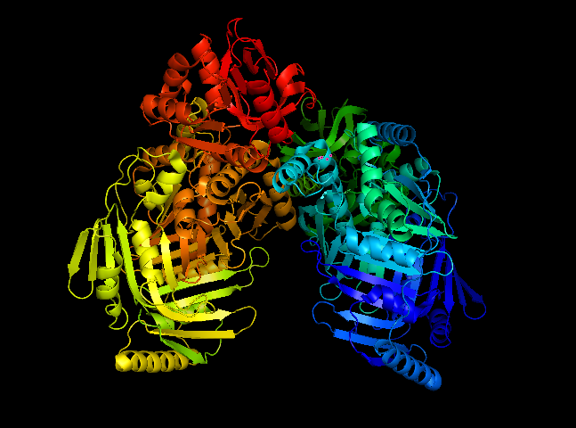 Anthranilate Synthase Protein